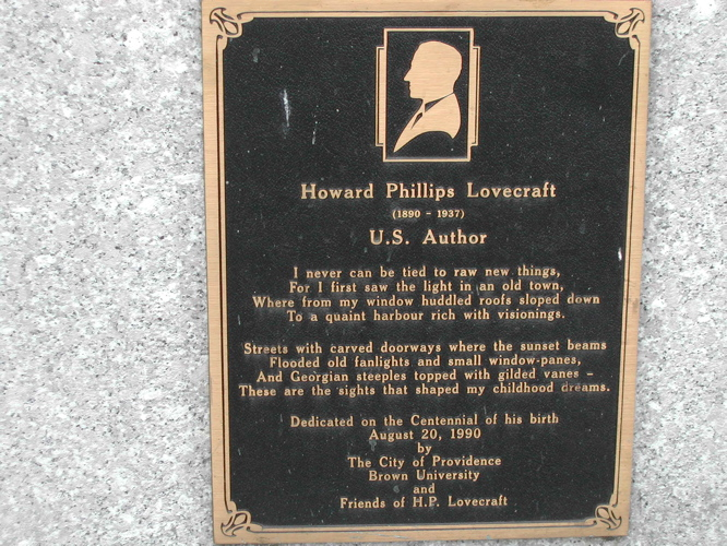 A closeup of memorial plaque, built in honor of horror writer and Providence resident H.P. Lovecraft. Picture taken three days after the 15th anniversary of its dedication.